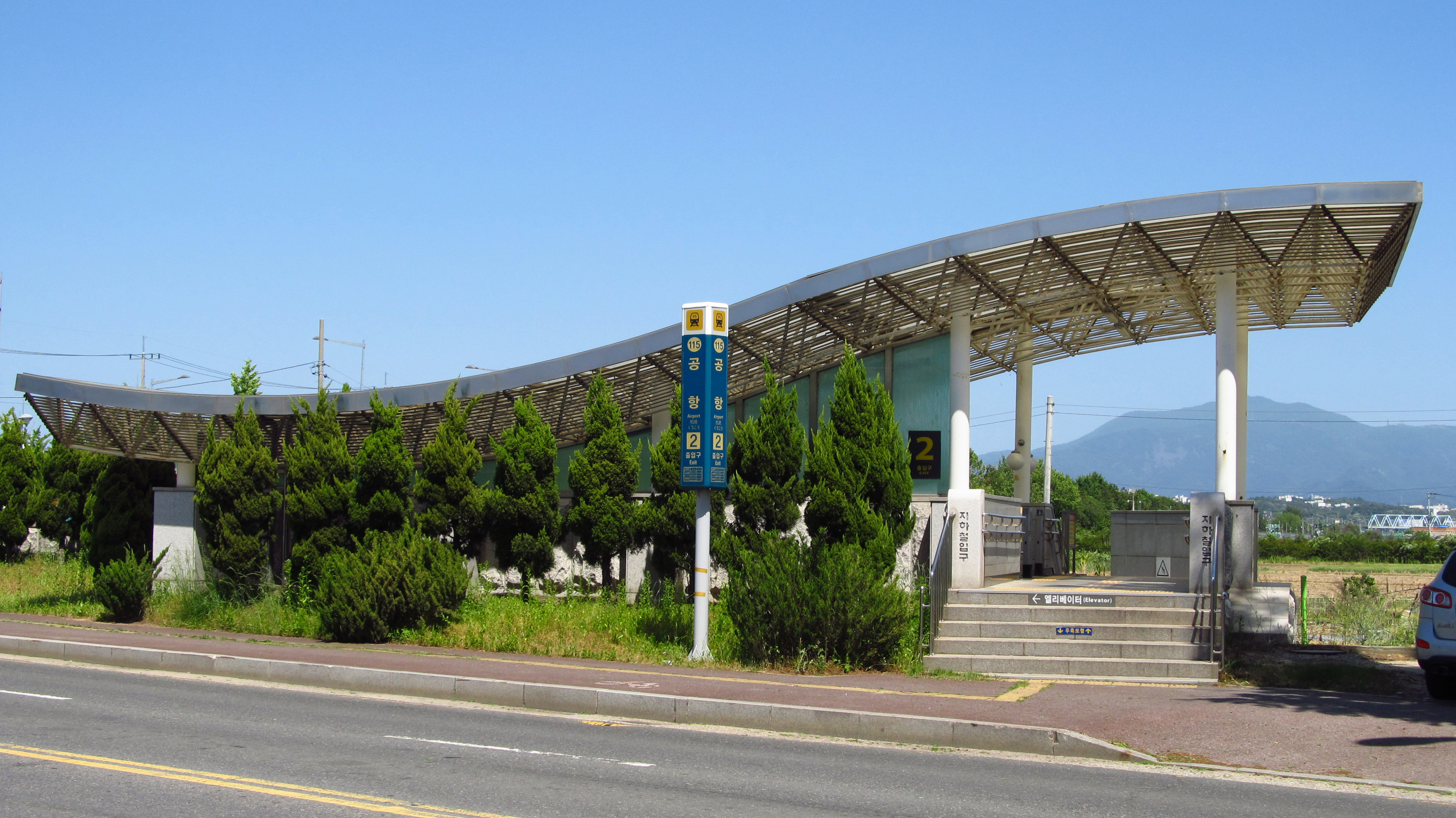 The no.2 entrance to Airport Station on Gwangju Metro Line 1 in Gwangsan-gu, Gwangju, Republic of Korea(South Korea)